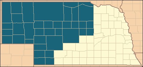 This map shows the Nebraska counties affected by the Kinkaid Act shaded.